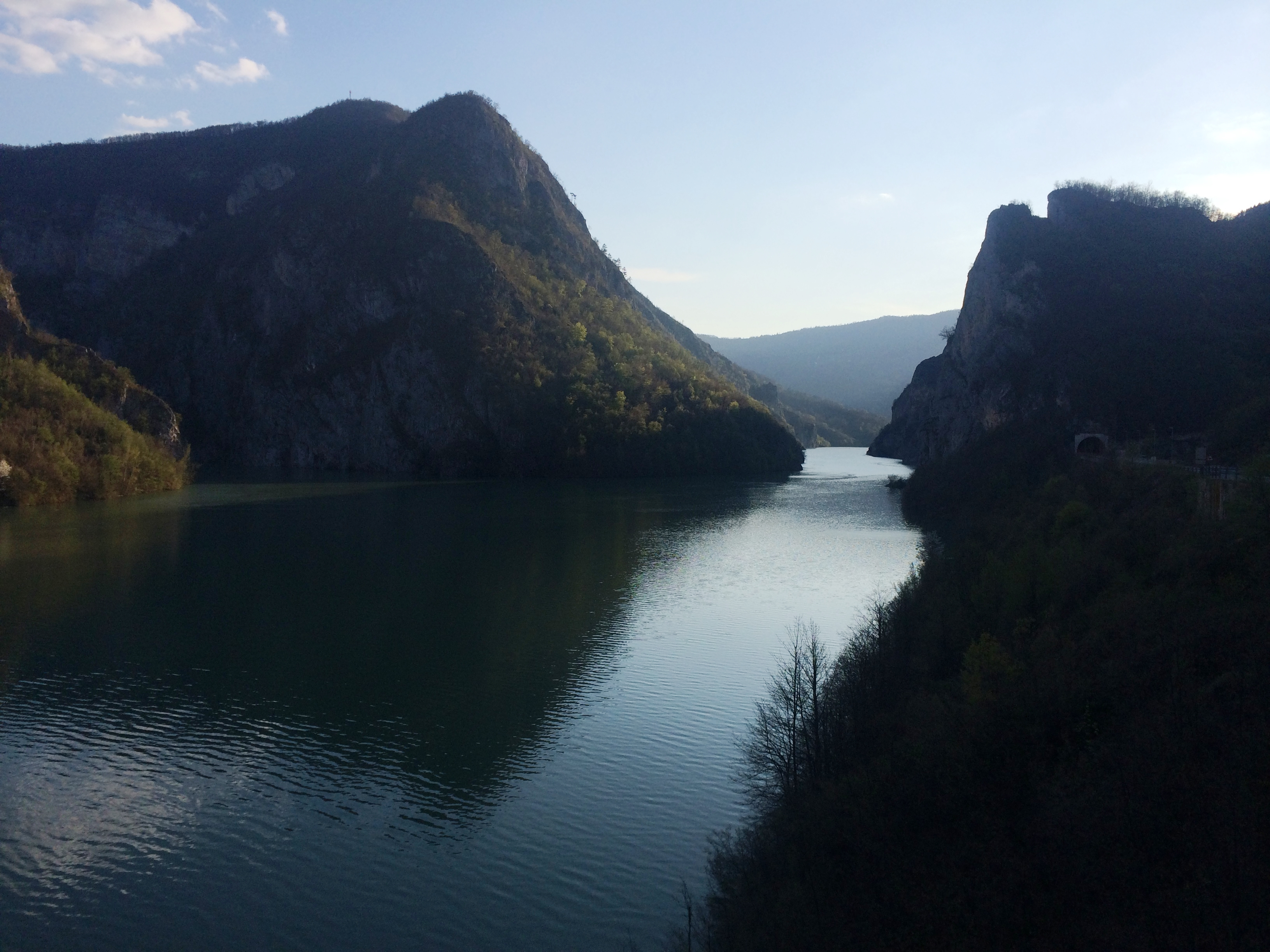 Image from the junction and intersection (highways M5, R467) of the rivers of Lim and Drina, in Bosnia-Hercegovina, marking the border between municipalities of Rudo and Visegrad.